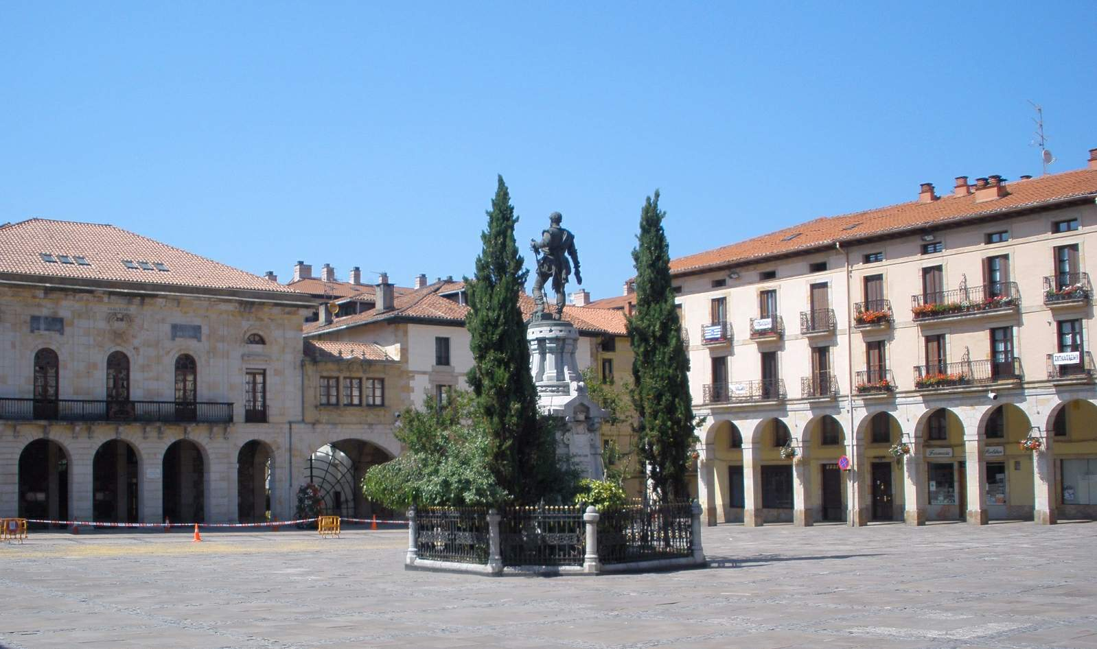 Plaza de Euskadi, Zumárraga